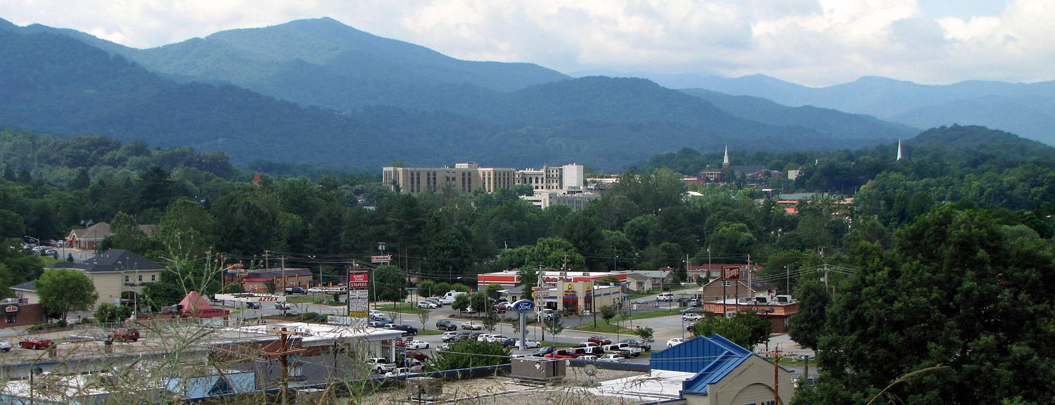 Waynesville, North Carolina. Russ Avenue in the foreground, Main Street in the background.